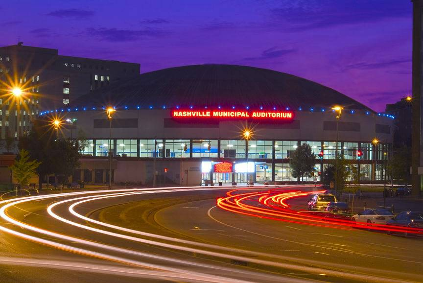 Nashville Municipal Auditorium